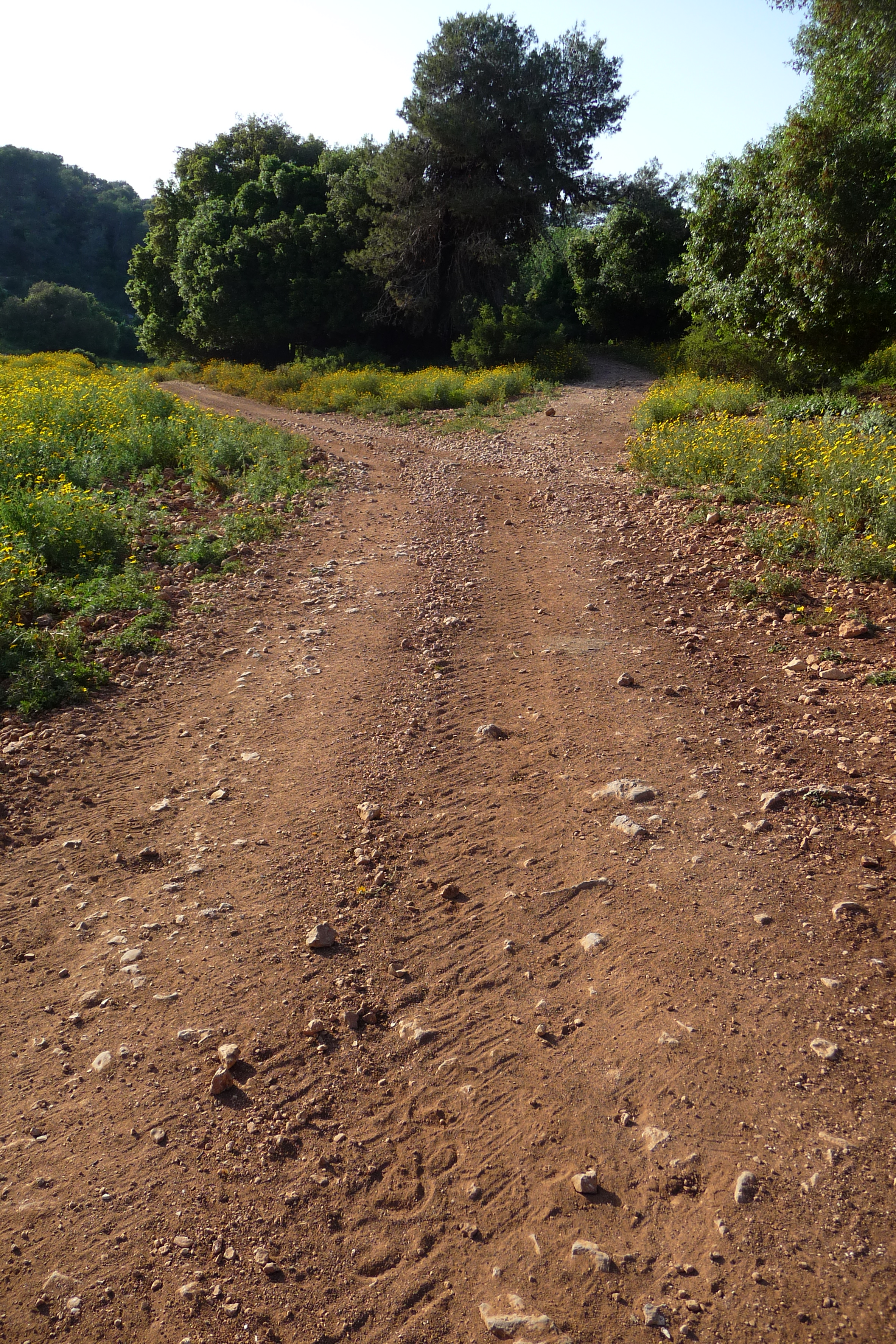 Beit Oren is a kibbutz in northern Israel. It falls under the jurisdiction of Hof HaCarmel Regional Council.